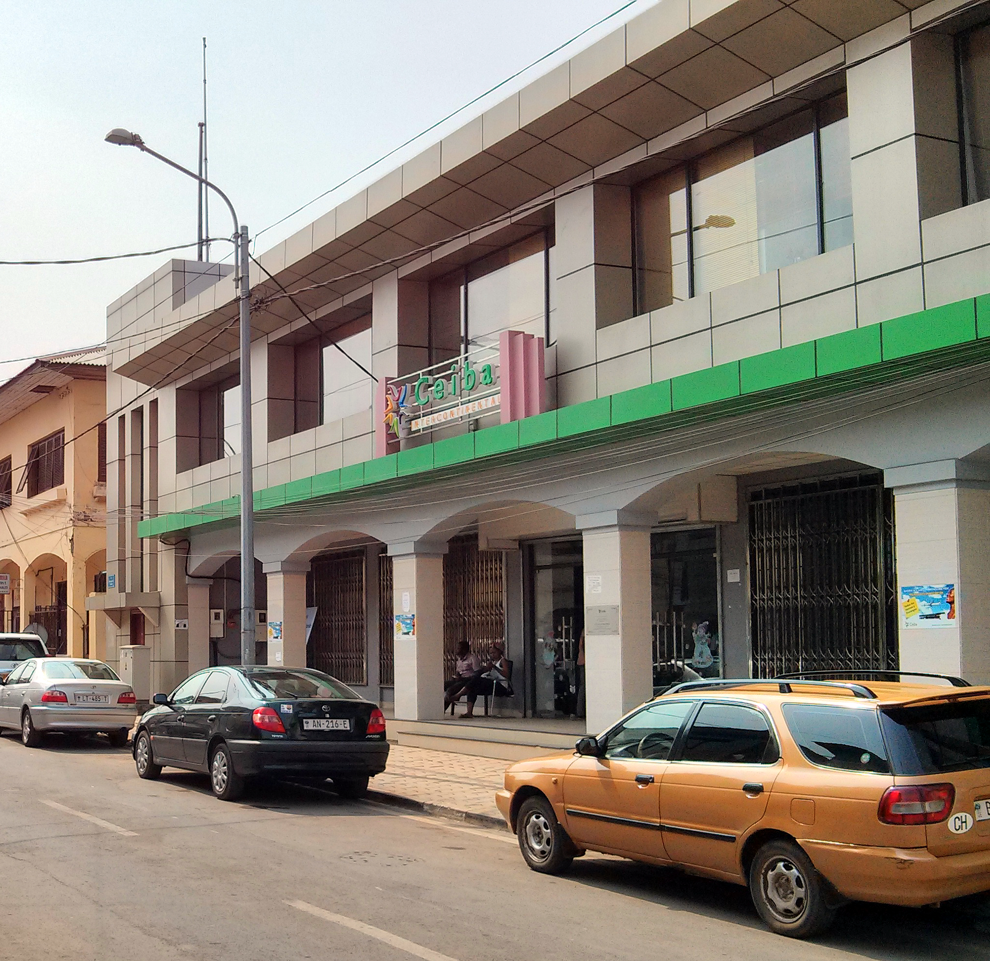 The headquarters of CEIBA Intercontinental, located on Calle del Presidente Nasser in Malabo, Equatorial Guinea.